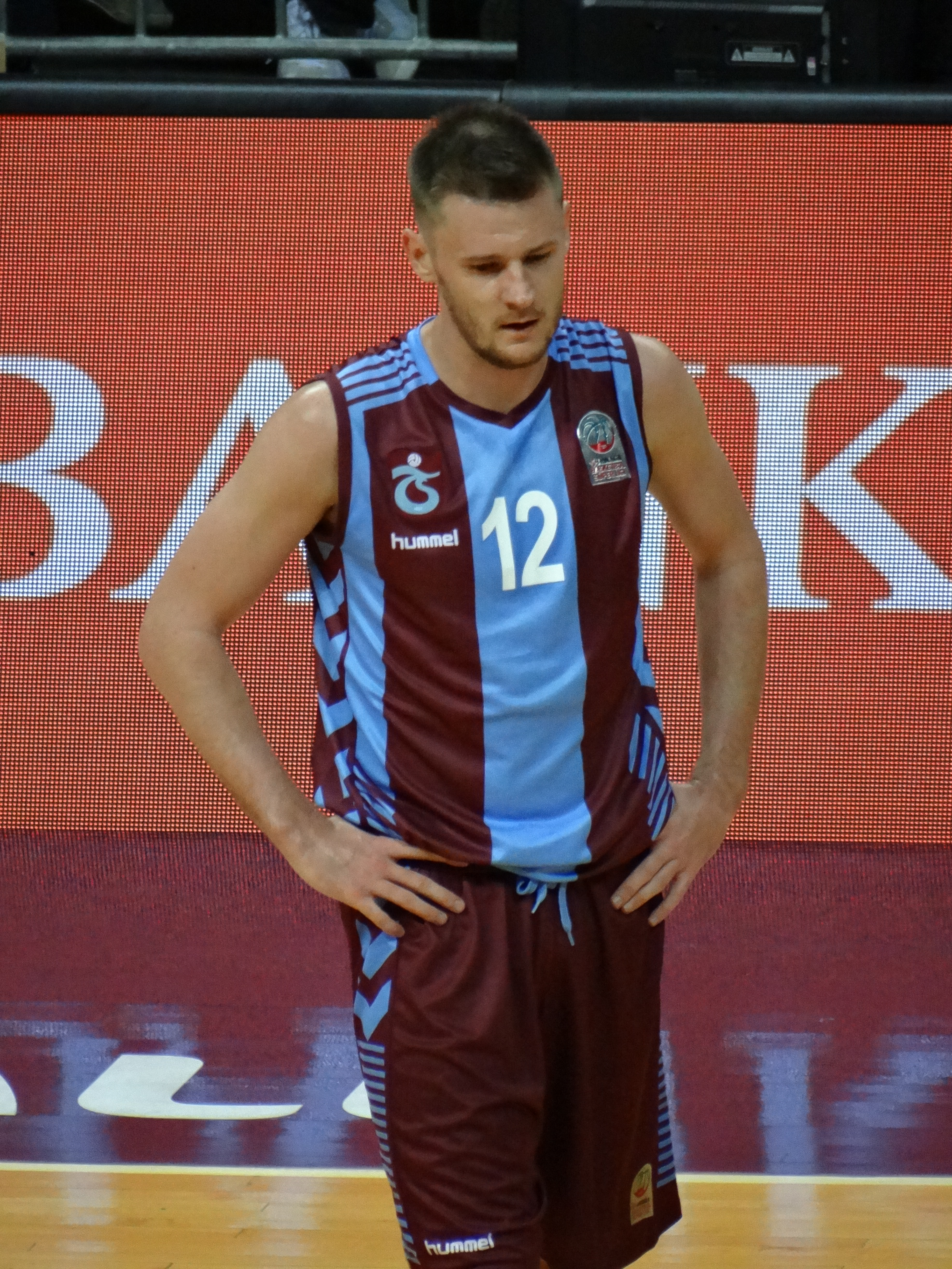 Šarūnas Vasiliauskas 12 Trabzonspor Basket TSL 20180407